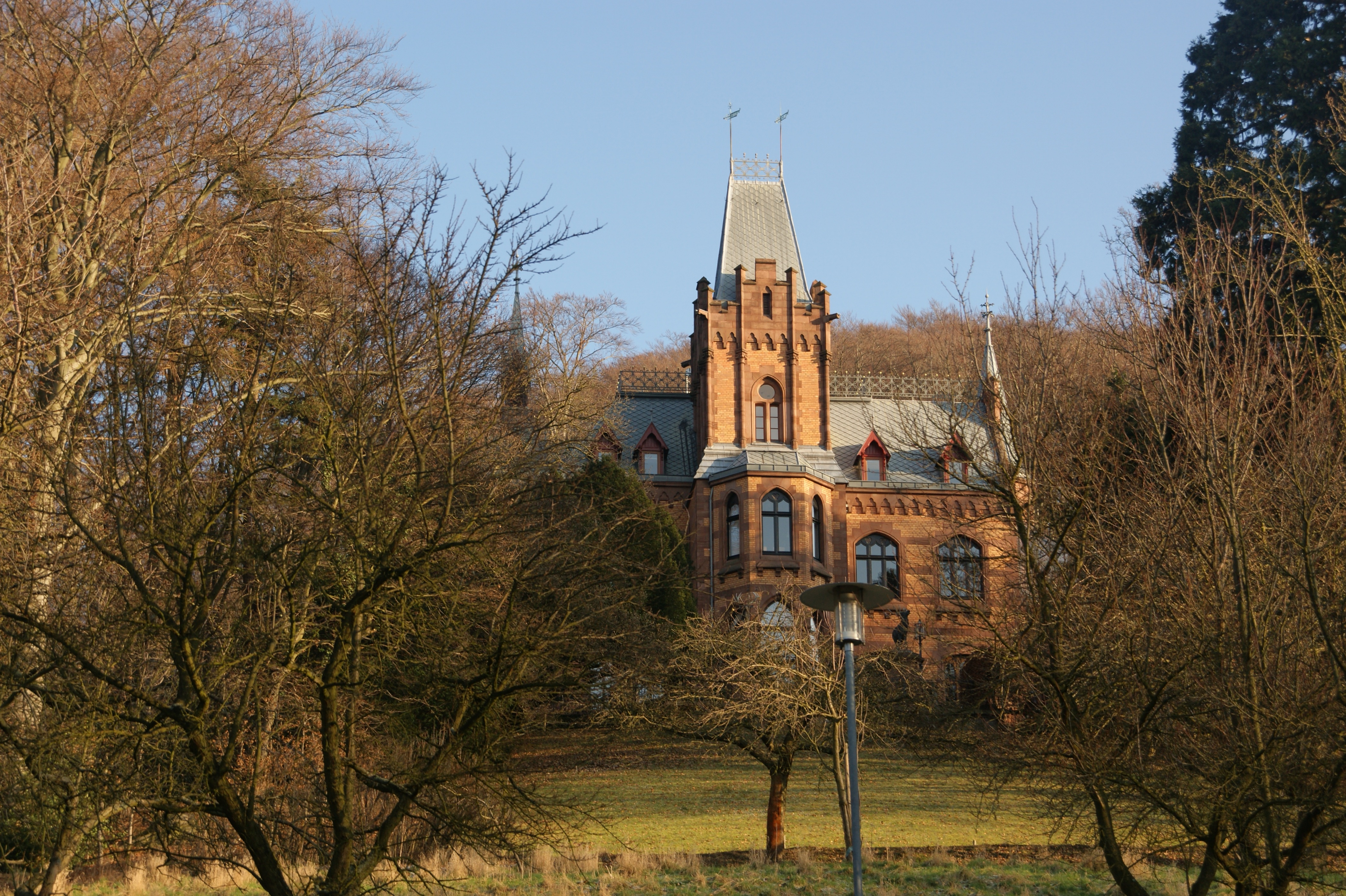 The castle Hirschburg in Königswinter